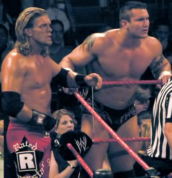 A pic of rated-rko live I took at RAW! event in Louisville Kentucky in 2006.